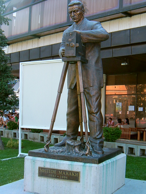 Monument of Milton Manaki, Bitola, Republic of Macedonia